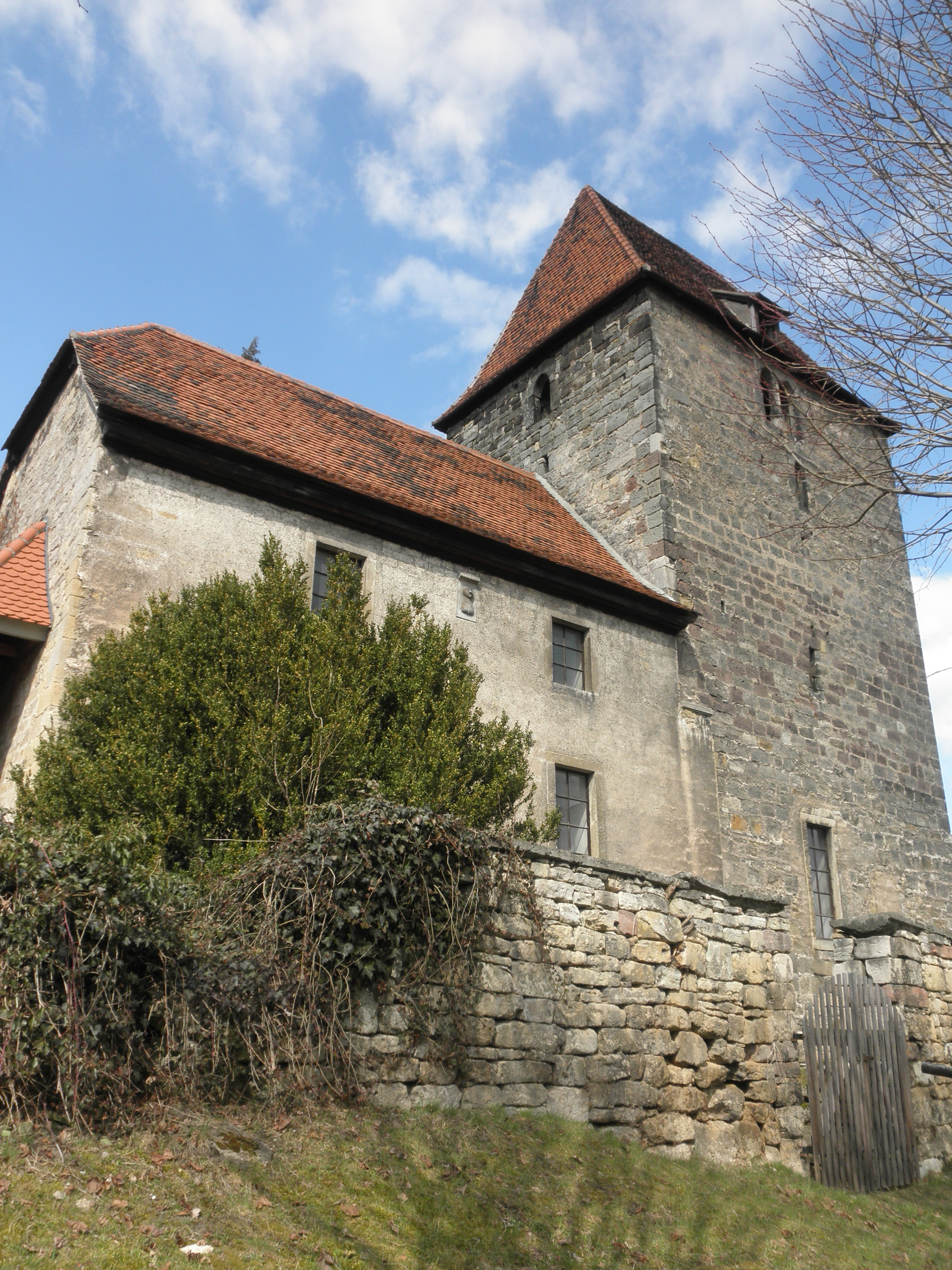 Church in Leutra (Jena) in Thuringia